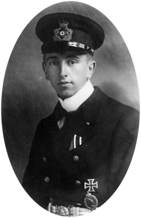 Factual corrections and alternative descriptions are encouraged separately from the original description. Additionally errors can be reported at this page to inform the Bundesarchiv. Original historic description: Theodor Osterkamp Marineflieger Theo Osterkamp (Porträt) 6637-18 Abgebildete Personen: * Osterkamp, Theodor: Generalmajor, Ritterkreuz (RK), Luftwaffe, Orden Pour le mérite, Deutschland (GND 124745822)